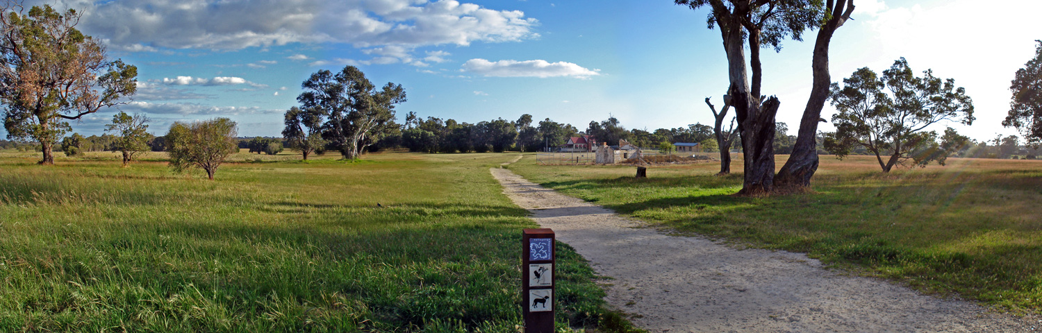 Perry's Paddock at Yellagonga Regional Park, Perth, Western Australia